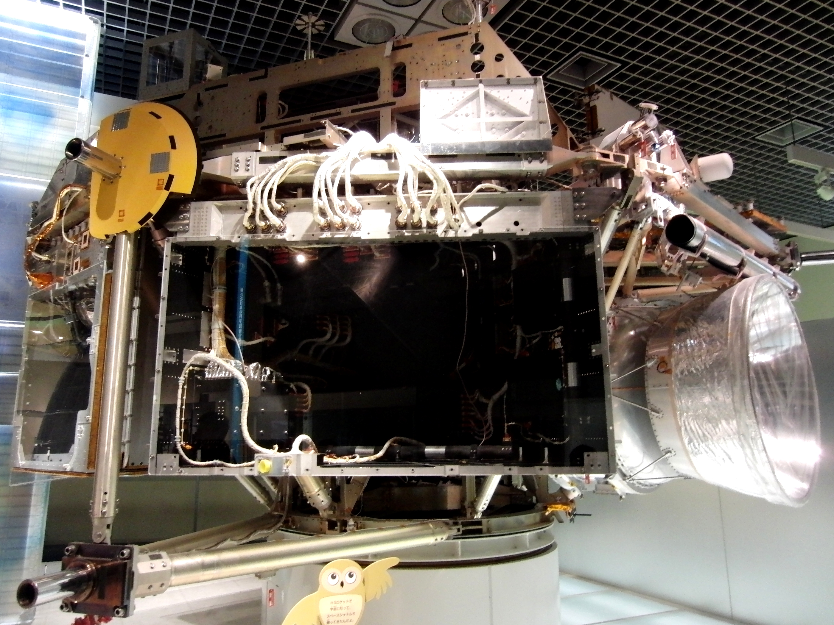 Space Flyer Unit (SFU). Exhibit in the National Museum of Nature and Science, Tokyo, Japan.